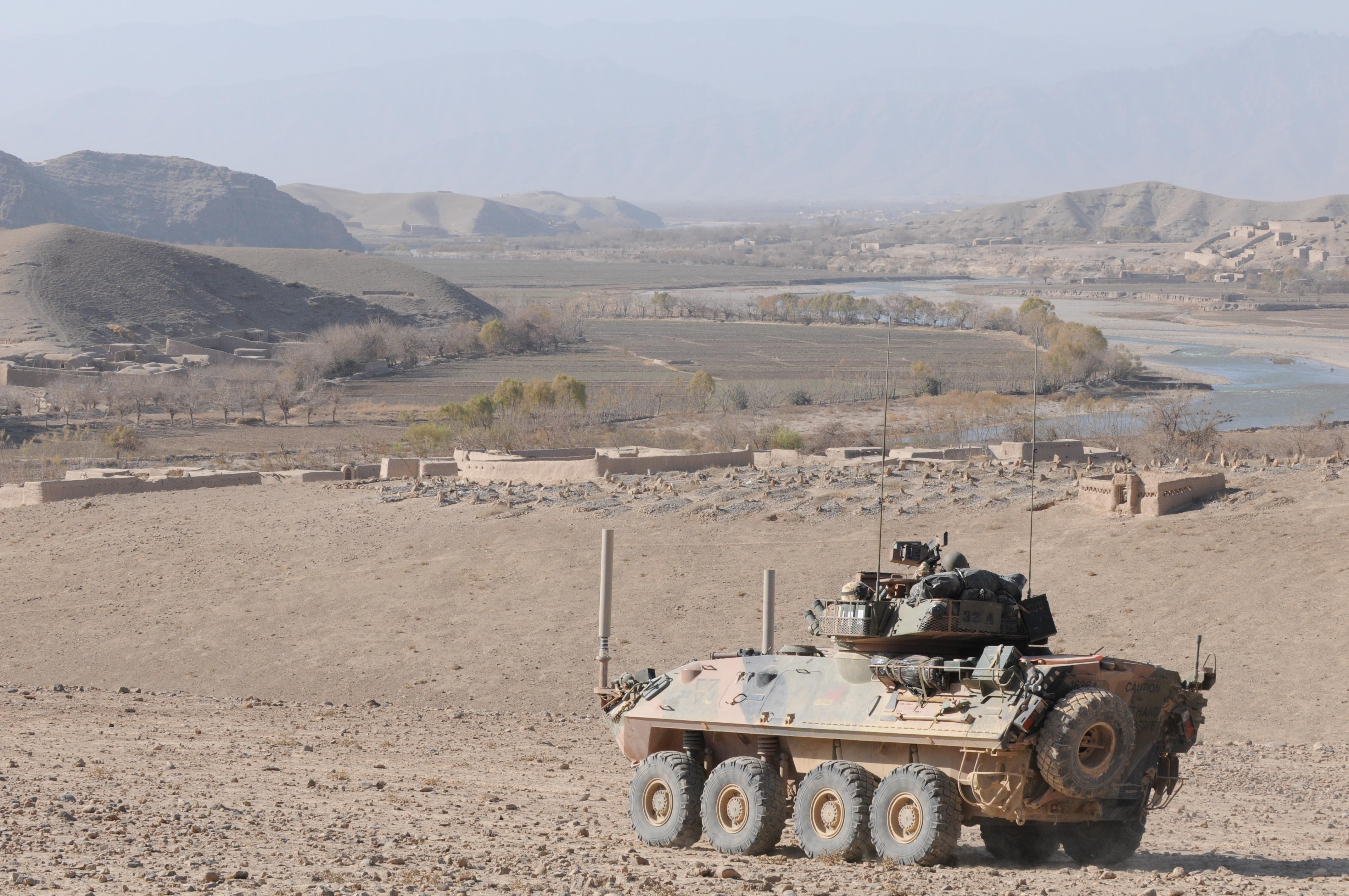 TANGI VALLEY, Afghanistan – An Australian Light Armored Vehicle angles itself into a defensive position to provide security for ground troops. Afghan National Army and Australian soldiers took control of the hill while the armored vehicles cleared the road leading to the hill, the future site for a new forward operating base in the Tangi Valley, Dec. 28, 2010.